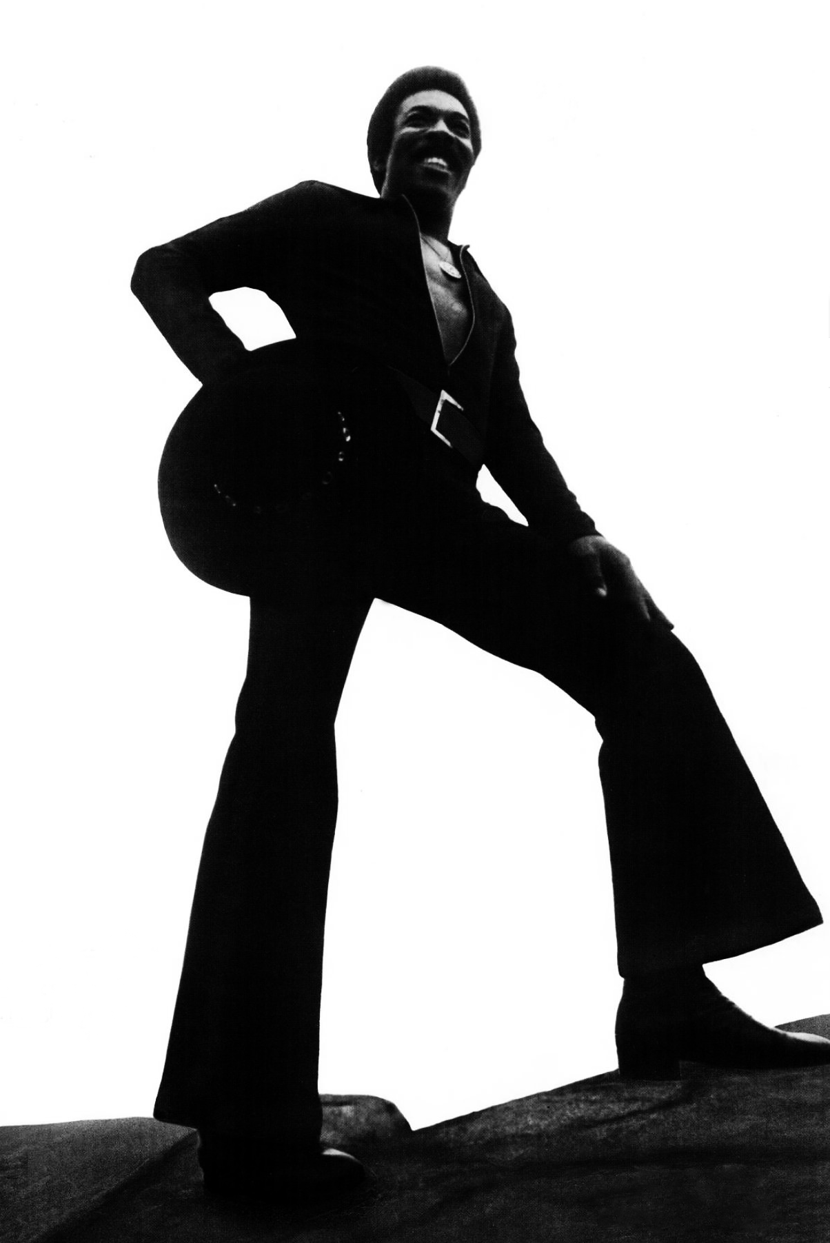 Trade ad for Wilson Pickett's single "Mr. Magic Man".To better adapt it to his respective Wikipedia article, the ad was cropped and cleaned in a graphics editing program. The original can be viewed at the source below.